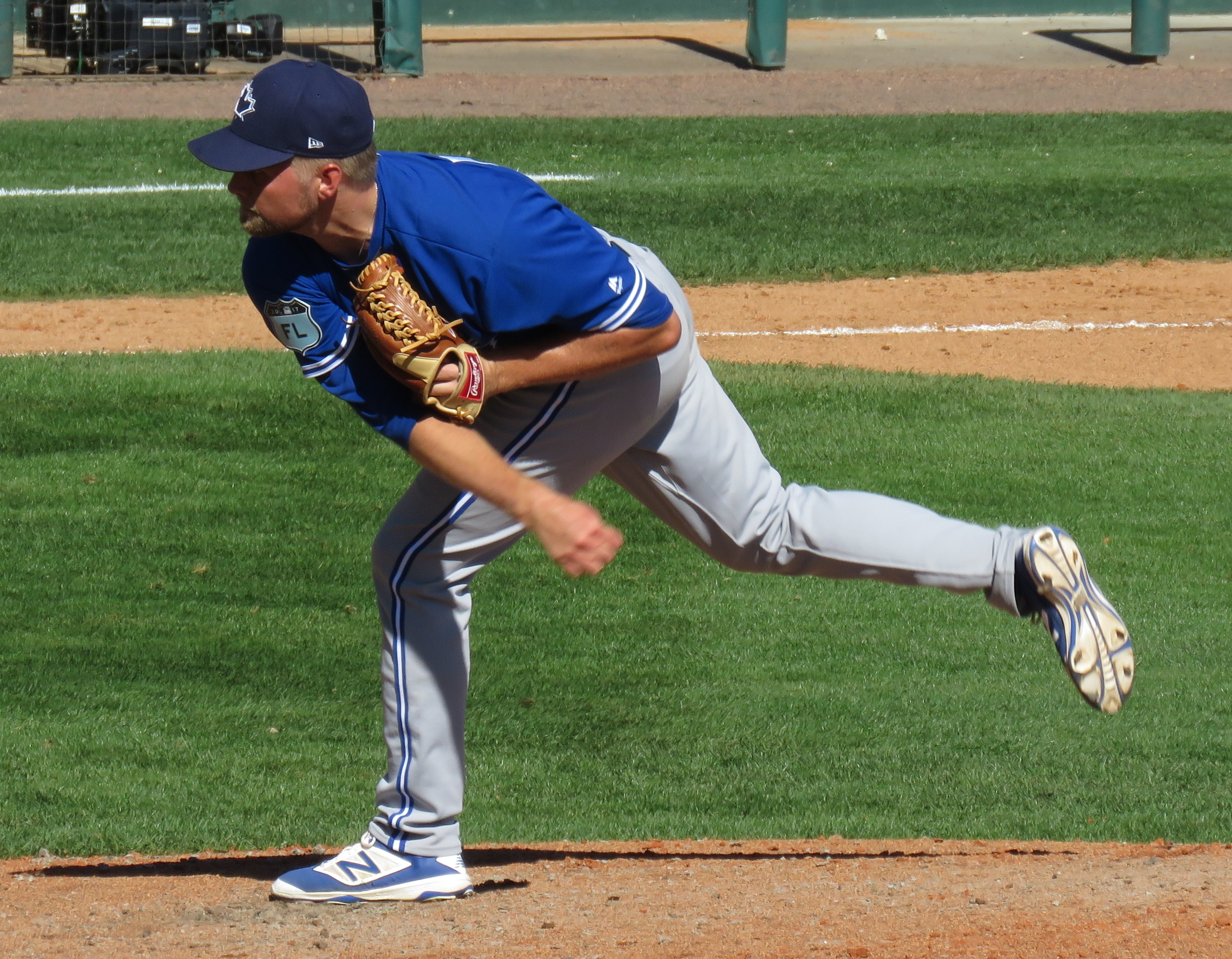 Glenn Sparkman pitching for the Toronto Blue Jays in 2017